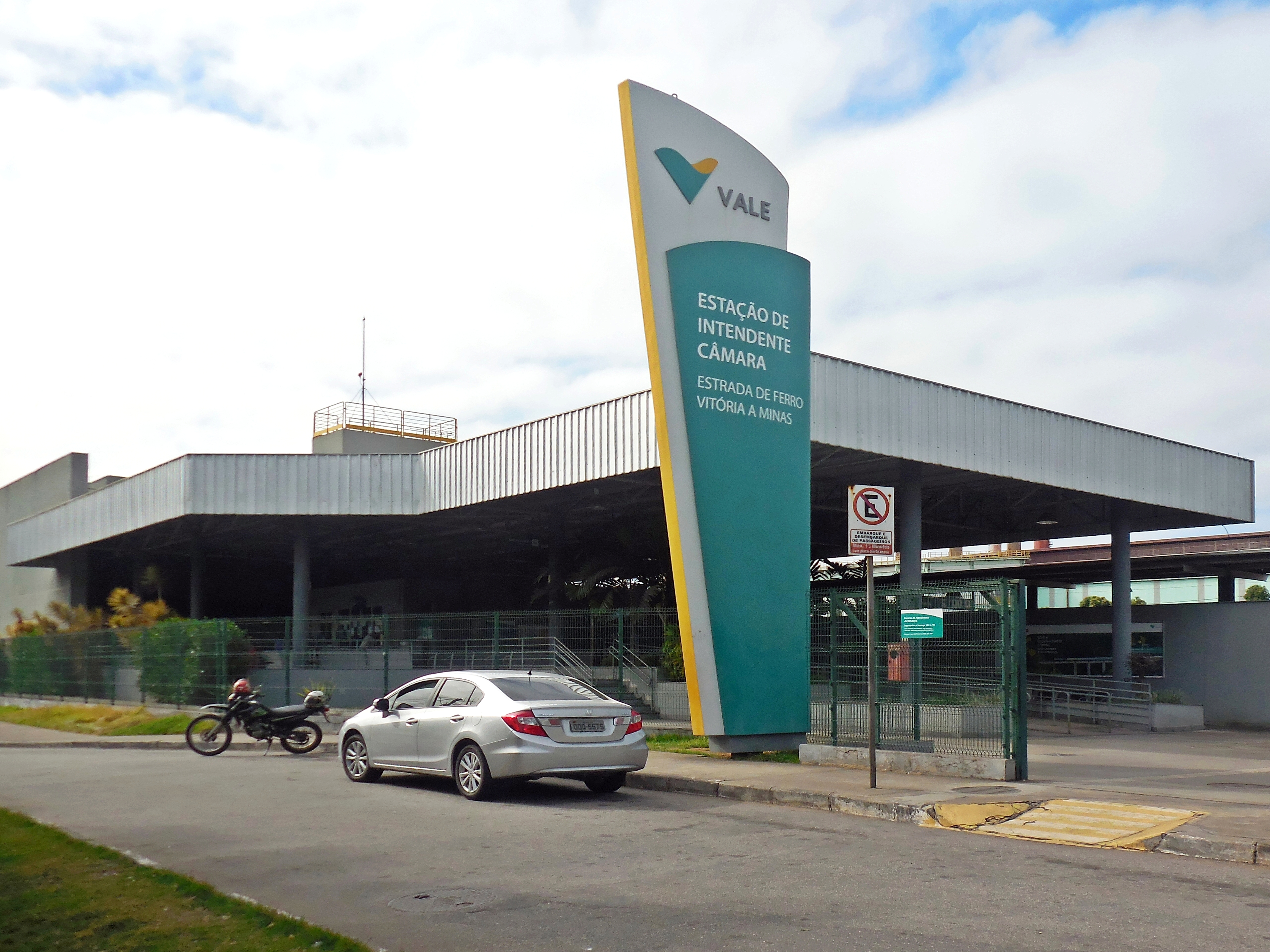 View of the Intendente Câmara train station, in Ipatinga, Minas Gerais, Brazil.